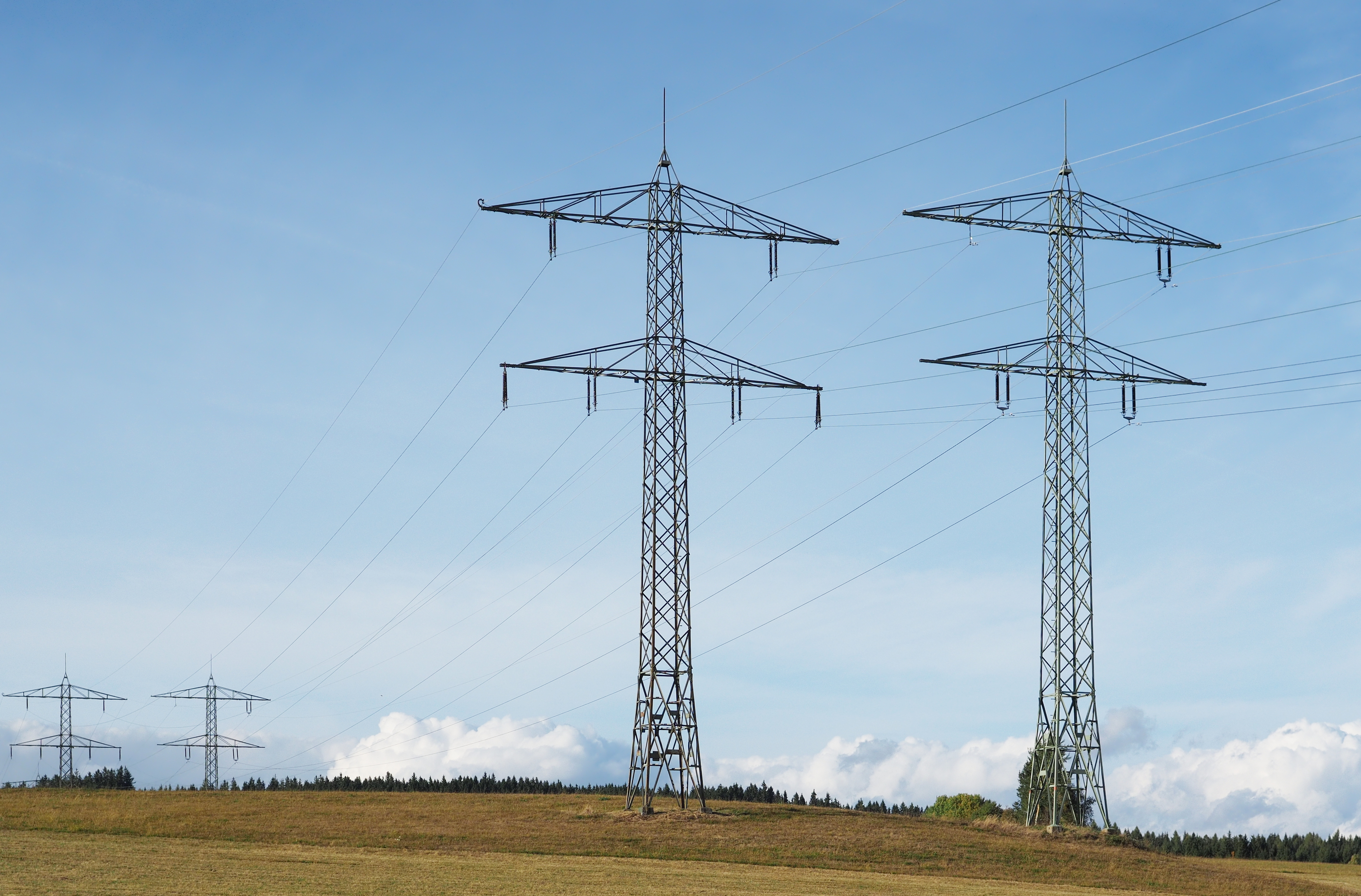 110 kV lines from Häusern power plant, Black Forest, Germany